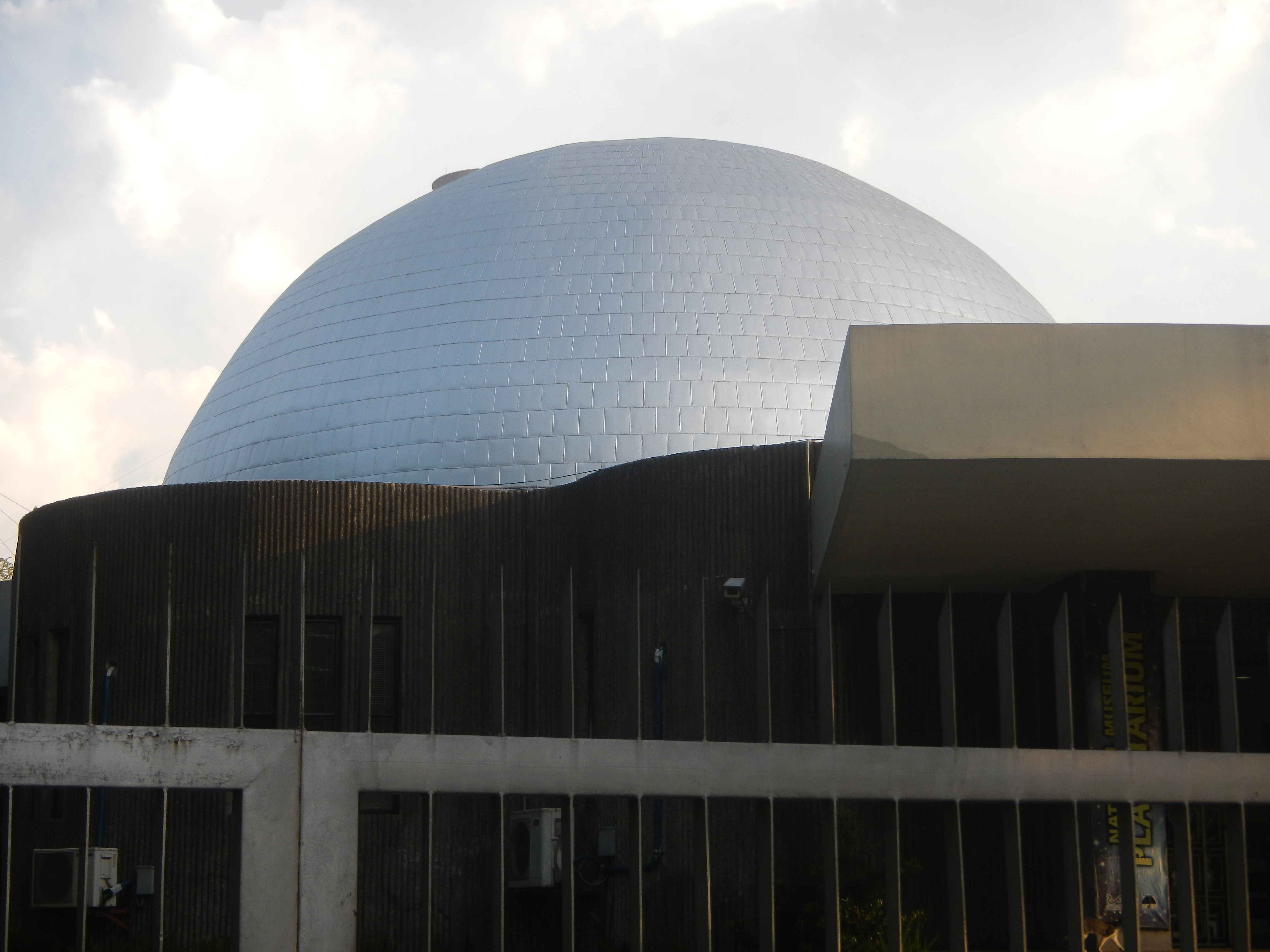 The Planetarium (Rizal Park) along Padre Burgos Avenue, Ermita, Manila, Maria Orosa Street (Calle Flórida) corner Roxas Boulevard and Bonifacio Drive from Kalaw Avenue; List of roads in Metro Manila, Major roads in Manila, (Note: Judge Florentino Floro, the owner, to repeat, Donor Florentino Floro of all these photos hereby donate gratuitously, freely and unconditionally all these photos to and for Wikimedia Commons, exclusively, for public use of the public domain, and again without any condition whatsoever).